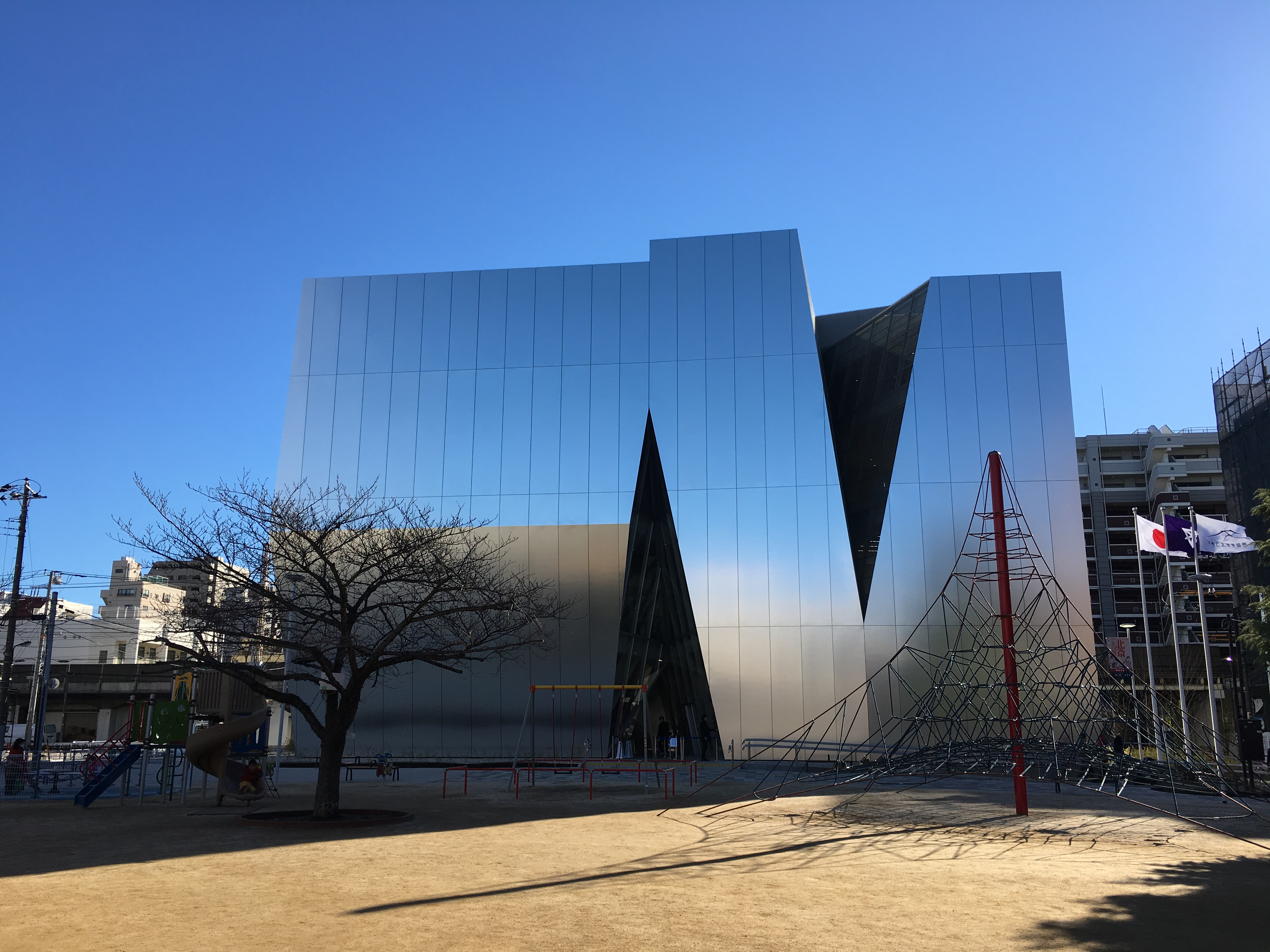 THE SUMIDA HOKUSAI MUSEUM 中文（中国大陆）: 墨田北斋美术馆